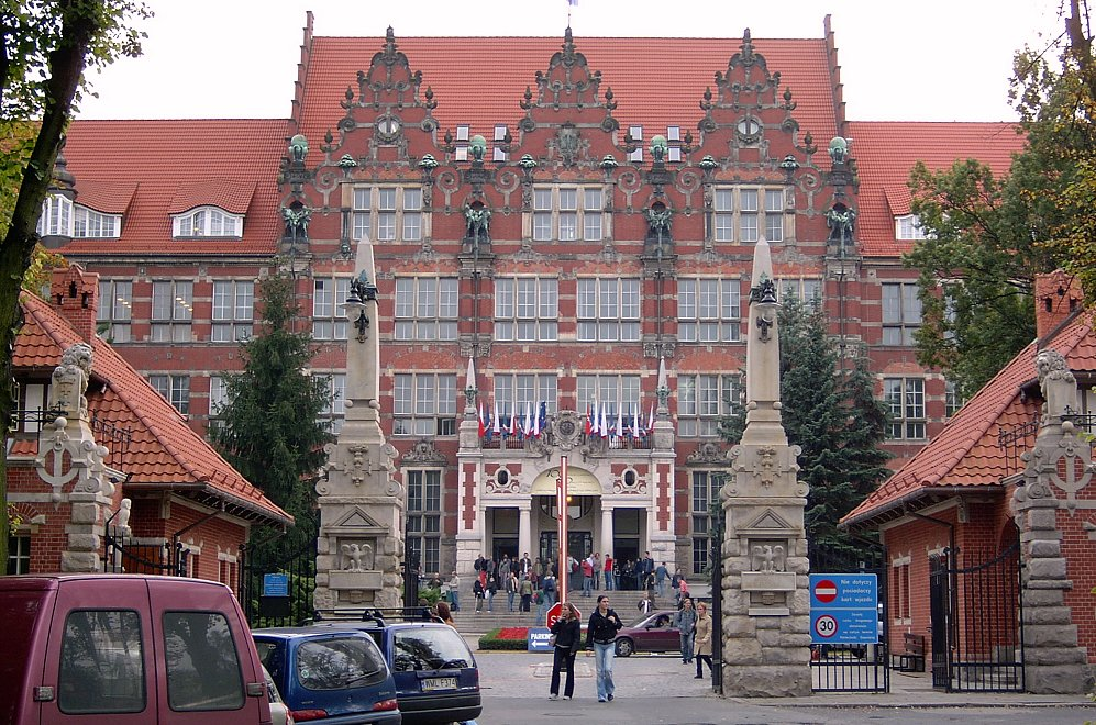 Gdansk University of Technology in Gdansk, Poland